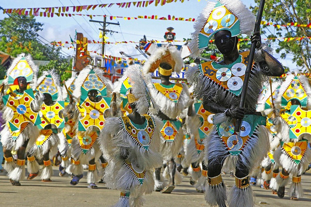 Binalbal Festival is an annual event in Tudela, Misamis Occidental, Philippines held every 1st of January.